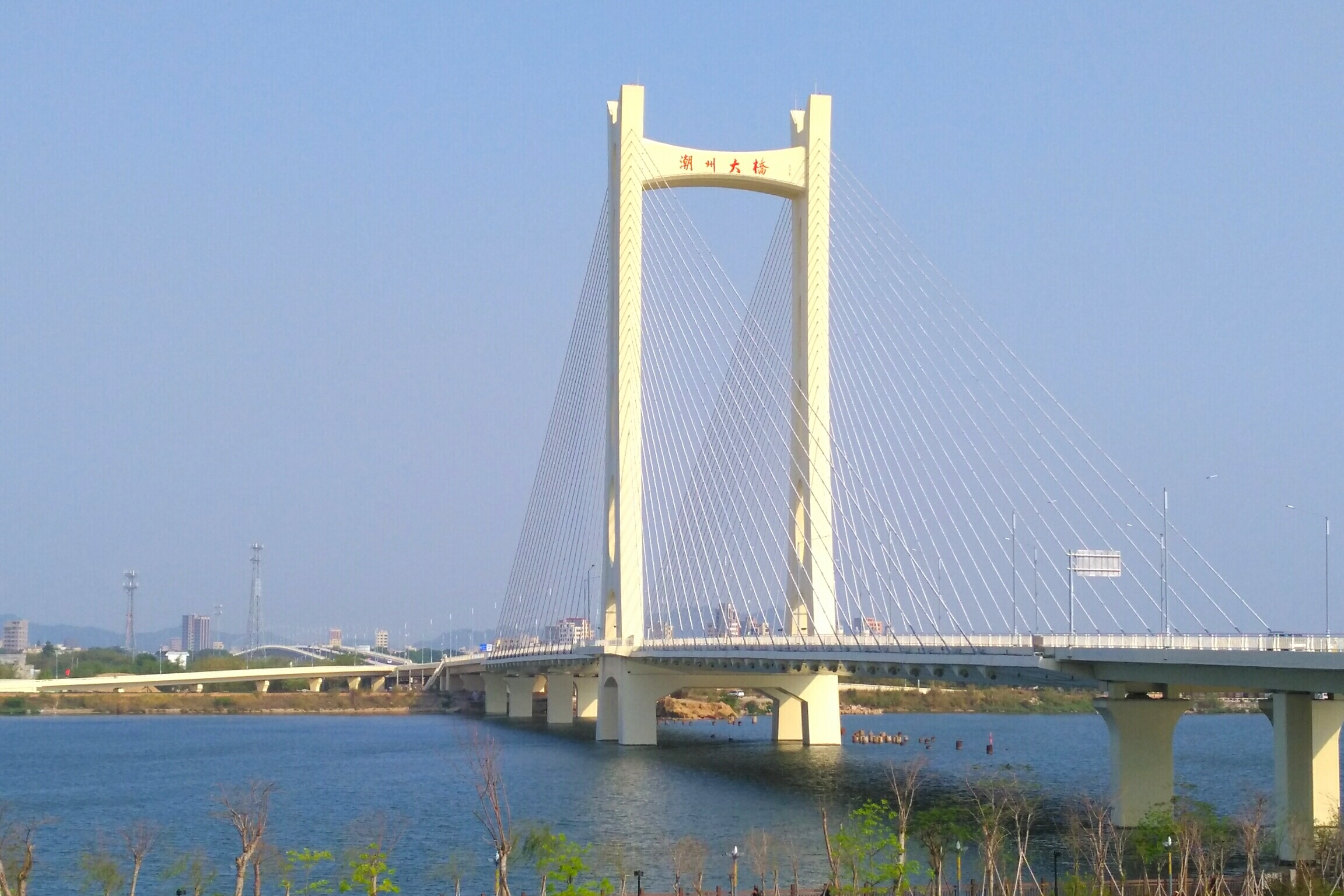 Chaozhou Bridge.